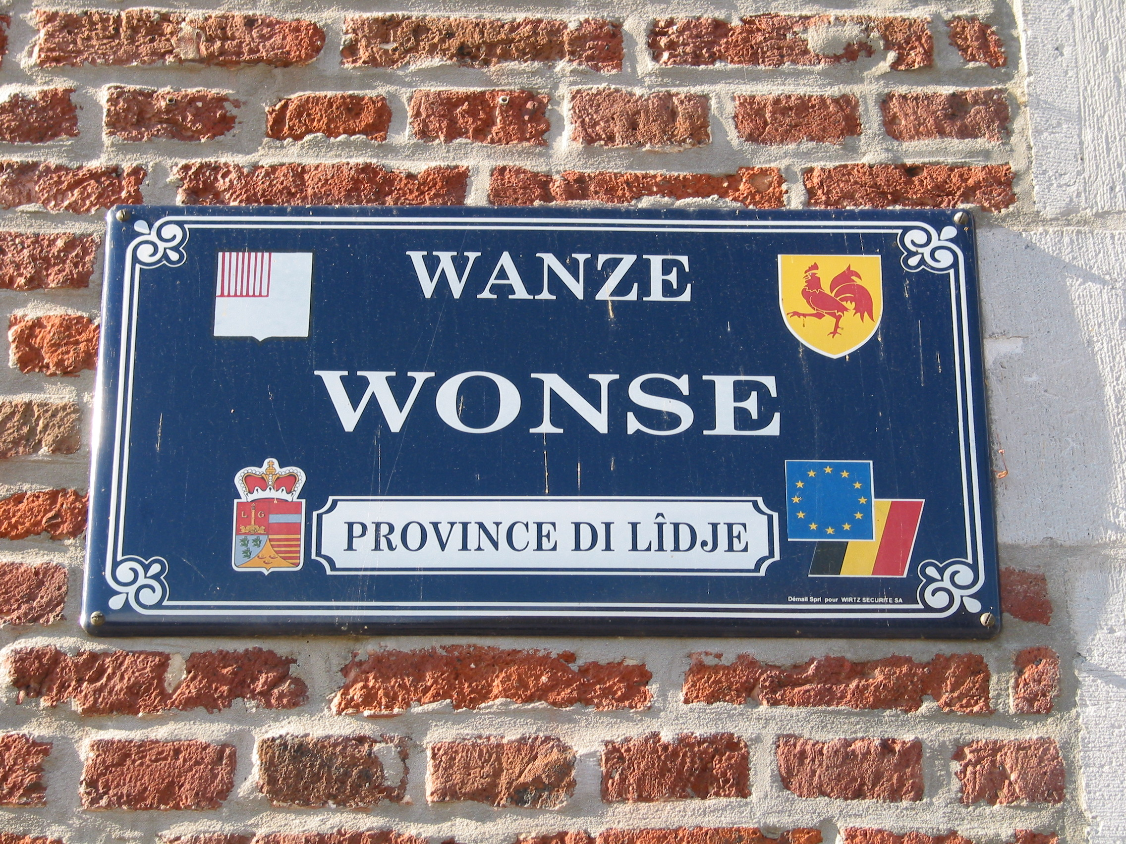 Wanze (Belgium), enameled street sign writen in walloon mentioning the name of the municipality and the province.